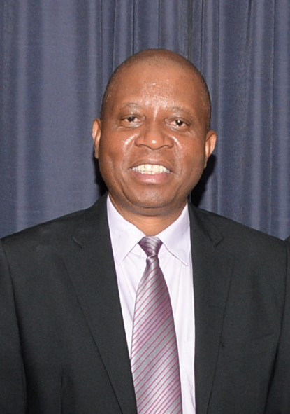 Consul General Christopher Rowan (left) and former District of Columbia Mayor Anthony Williams (right) met with the City of Joburg mayor, Herman Mashaba, on Friday, February 17.